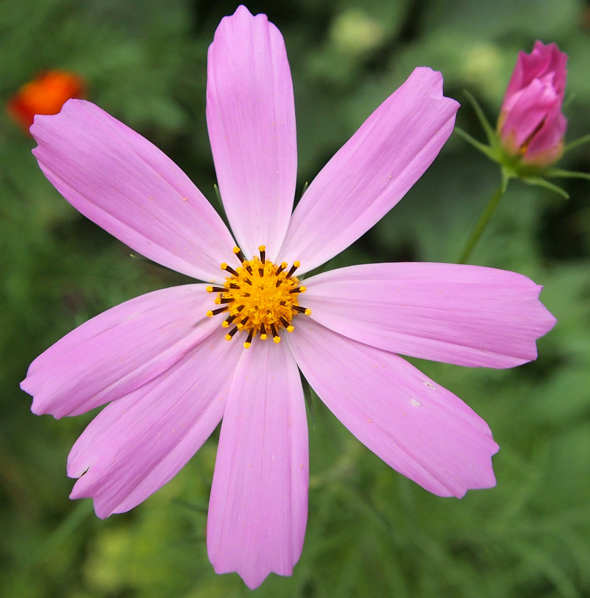 Flower in Bakhchisarai near a monastery. This photograph was taken with a Olympus E-PL1.